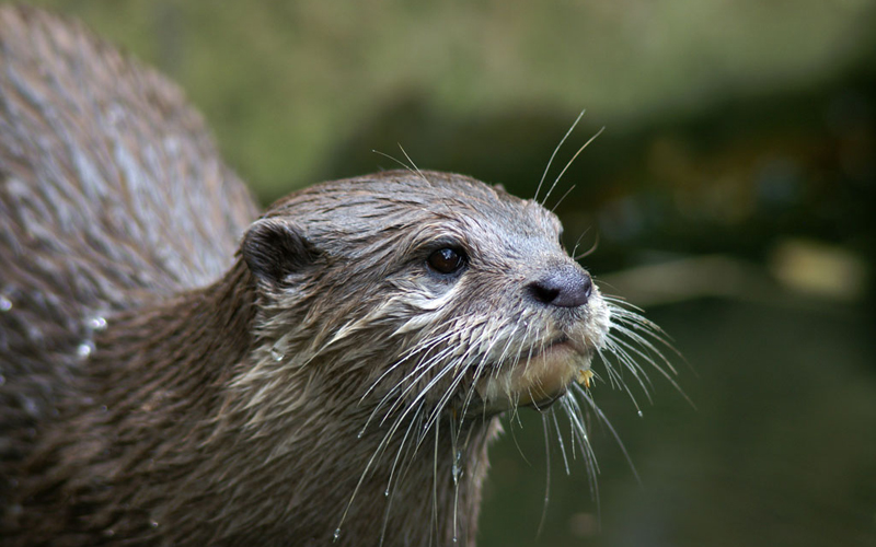 Oriental Small-clawed Otter